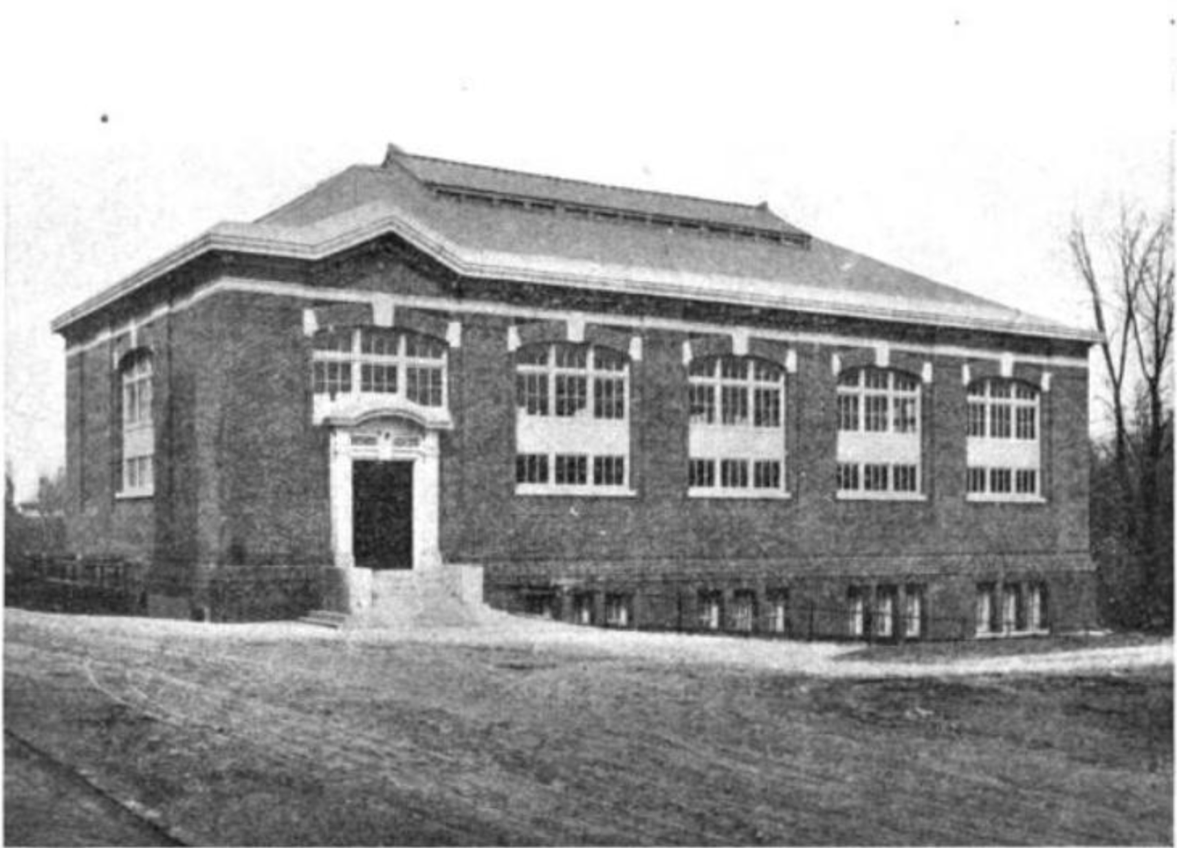 Ryan Gymnaisum (today the Davis Performing Arts Center) at Georgetown University, shortly after its opening in 1905